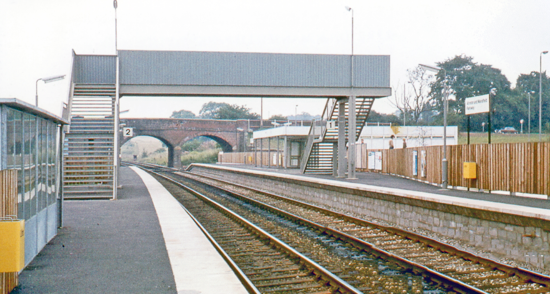 Alfreton & Mansfield Parkway, newly reopened station 1973View southward, towards Trent, Nottingham etc. on the ex-Midland Erewash Valley main line. Formerly 'Alfreton & South Normanton', which was closed 2/1/67 (goods 2/10/67), it was rebuilt and reopened 7/5/73 as 'Alfreton & Mansfield Parkway', then plain 'Alfreton' in 1995 when Mansfield came back on the system on the renovated Robin Hood Line from Nottingham.